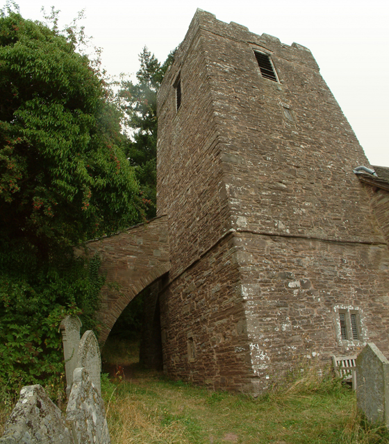 St Martin’s Church. St Martin’s Church, Cwmyoy. The leaning tower is apparently leaning greater than the Leaning Tower of Pisa.